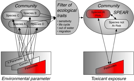 Concept diagram of the bioindicator SPEAR.